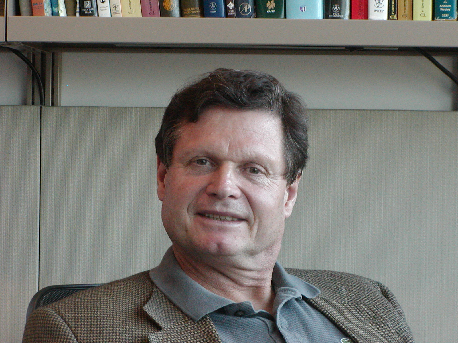 Prof. Peter Nordlander